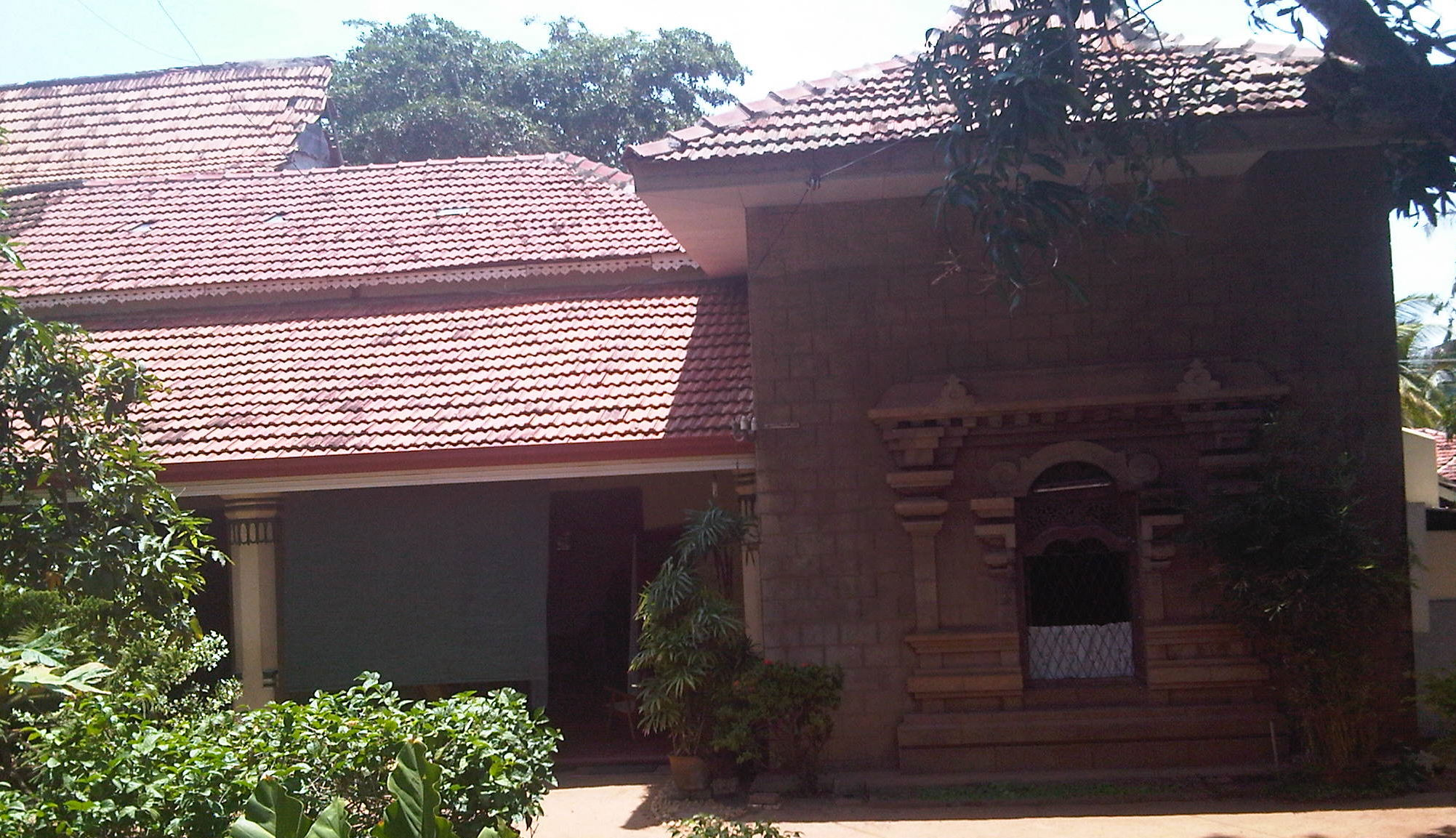 'Edirille Gedera' in Chilaw was the home of a National Hero of Sri Lanka, the freedom fighter Charles Edgar Corea. He was a founder member and President of the Ceylon National Congress and the Chilaw Association. He campaigned long and hard for the independence of Ceylon. Mahatma Gandhi and distinguished politicians such as D.S.Senanayake, F.R.Senanayake, Sir Baron Jayathilake, E.W. Perera, Sir Ponnambalam Ramanathan, Sir Ponnambalam Arunachalam, A. E. Goonesinha, Sir James Peiris and others have all visited 'Edirille Gedera,' to see C.E.Corea and his family. This historic house was named after the Sri Lankan war hero Edirille Rala who was crowned King Dominicus Corea, King of Kotte and Sitawaka in 1596. Gandhi visited this historic home in 1927 on his first and only visit of Ceylon.